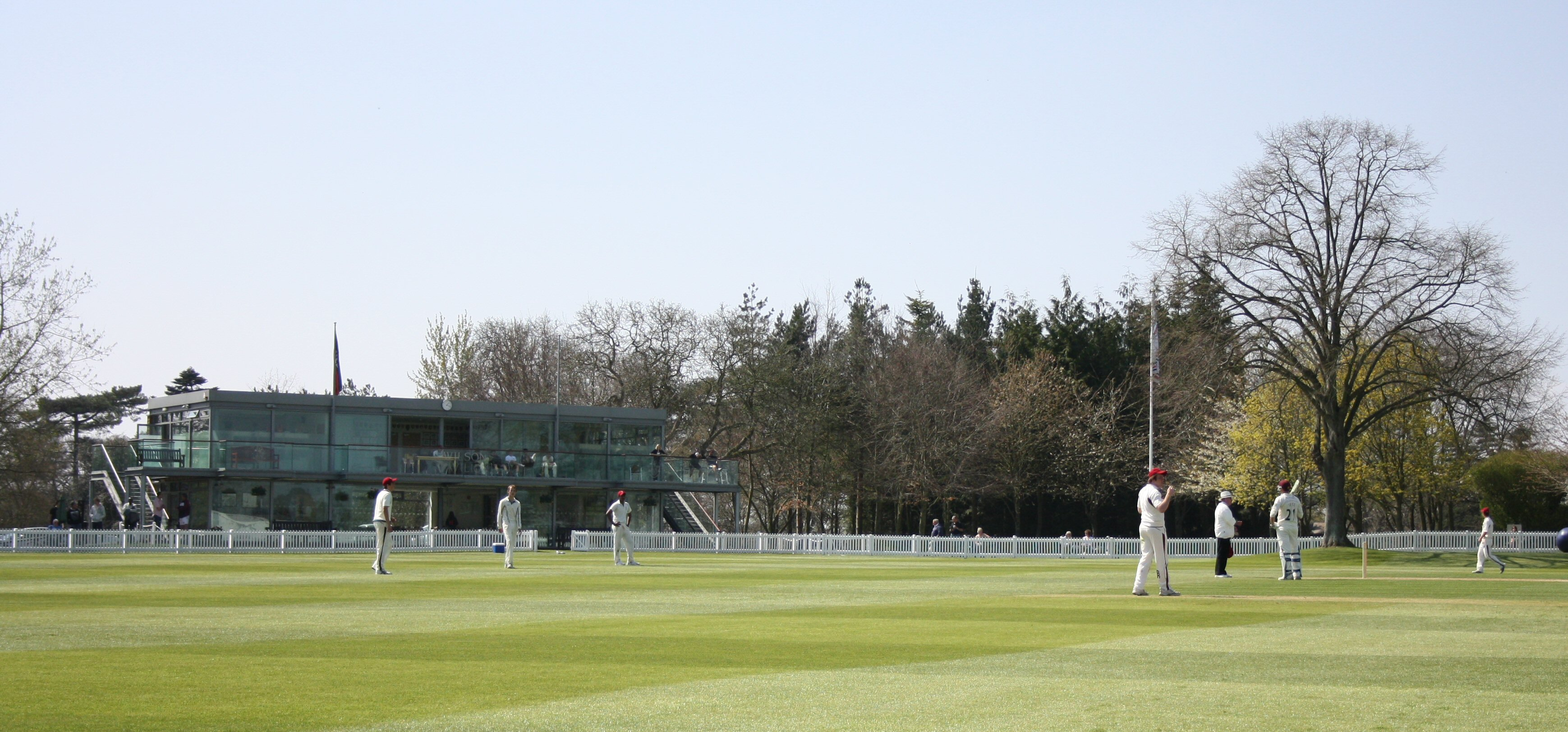 Main cricket ground at Millfield School, showing the pavilion. Note the tree on the right hand side of the image, which is within the boundary. The match is being played between a Millfield XI and Somerset County Cricket Club's Second XI.